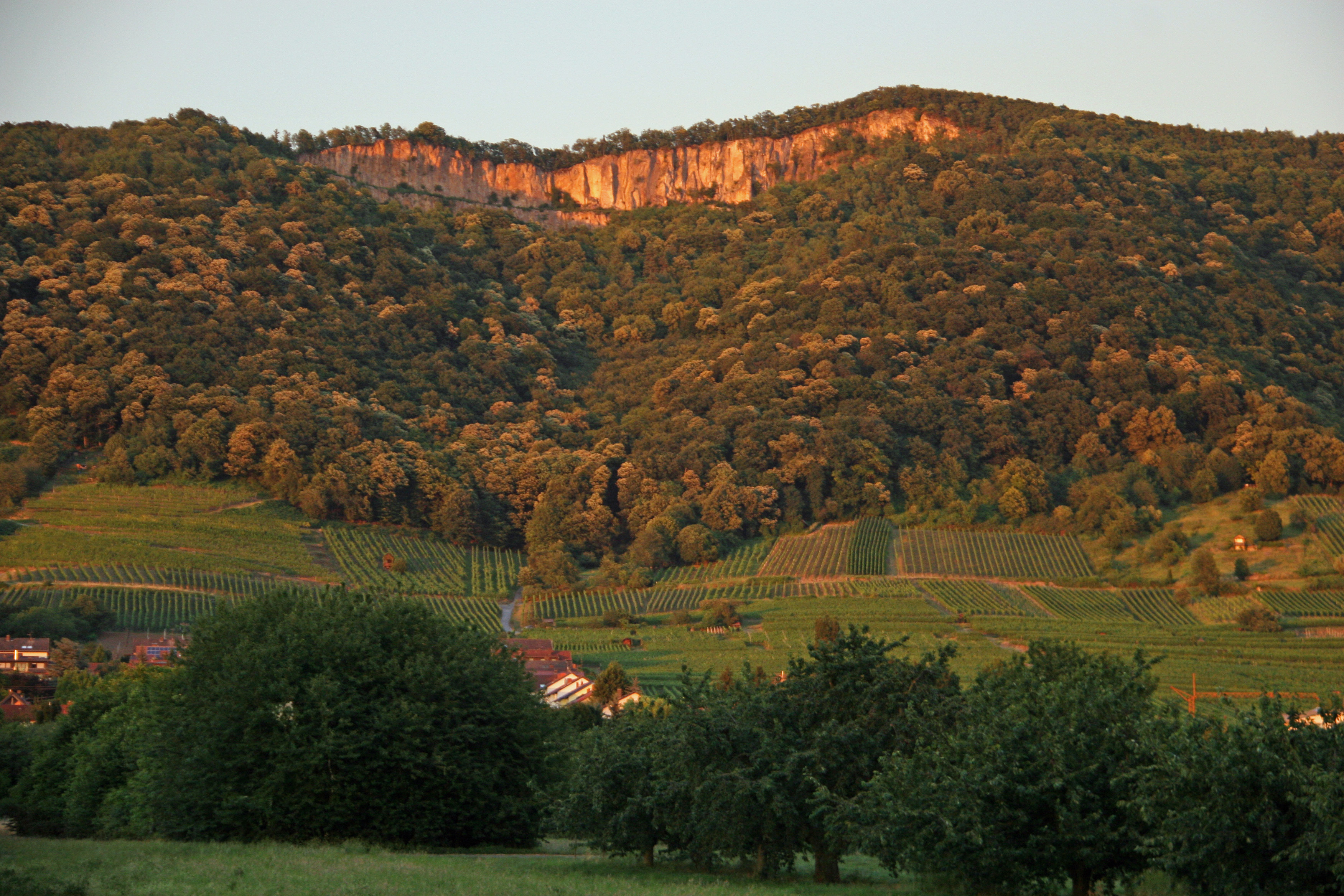 Quarry of nature reserve area Oelberg in the evening sun